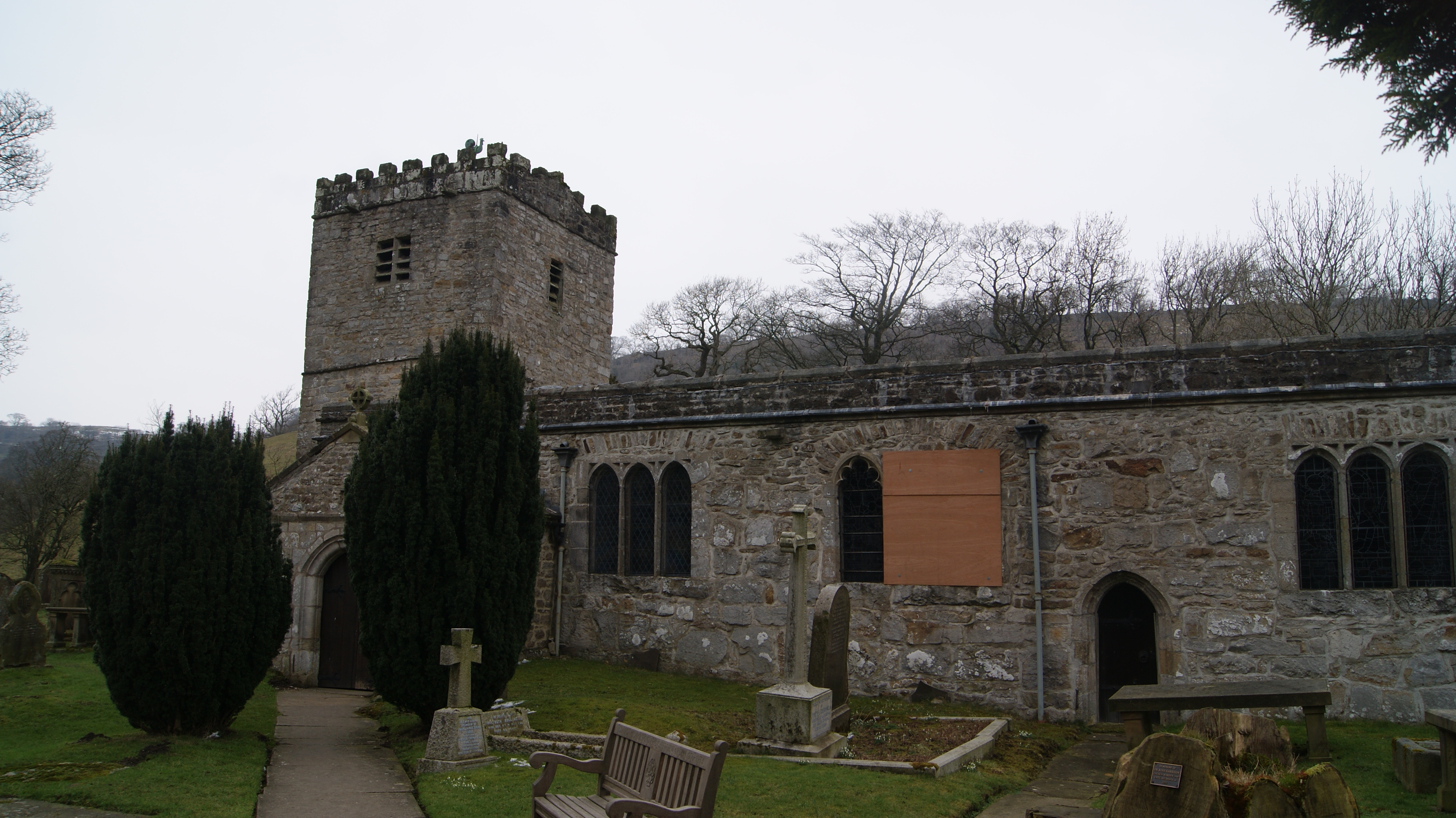 St. Michael and All Angels Church, Hubberholme, North Yorkshire. Note the broken window. Taken on the afternoon of Tuesday the 12th of February 2013.